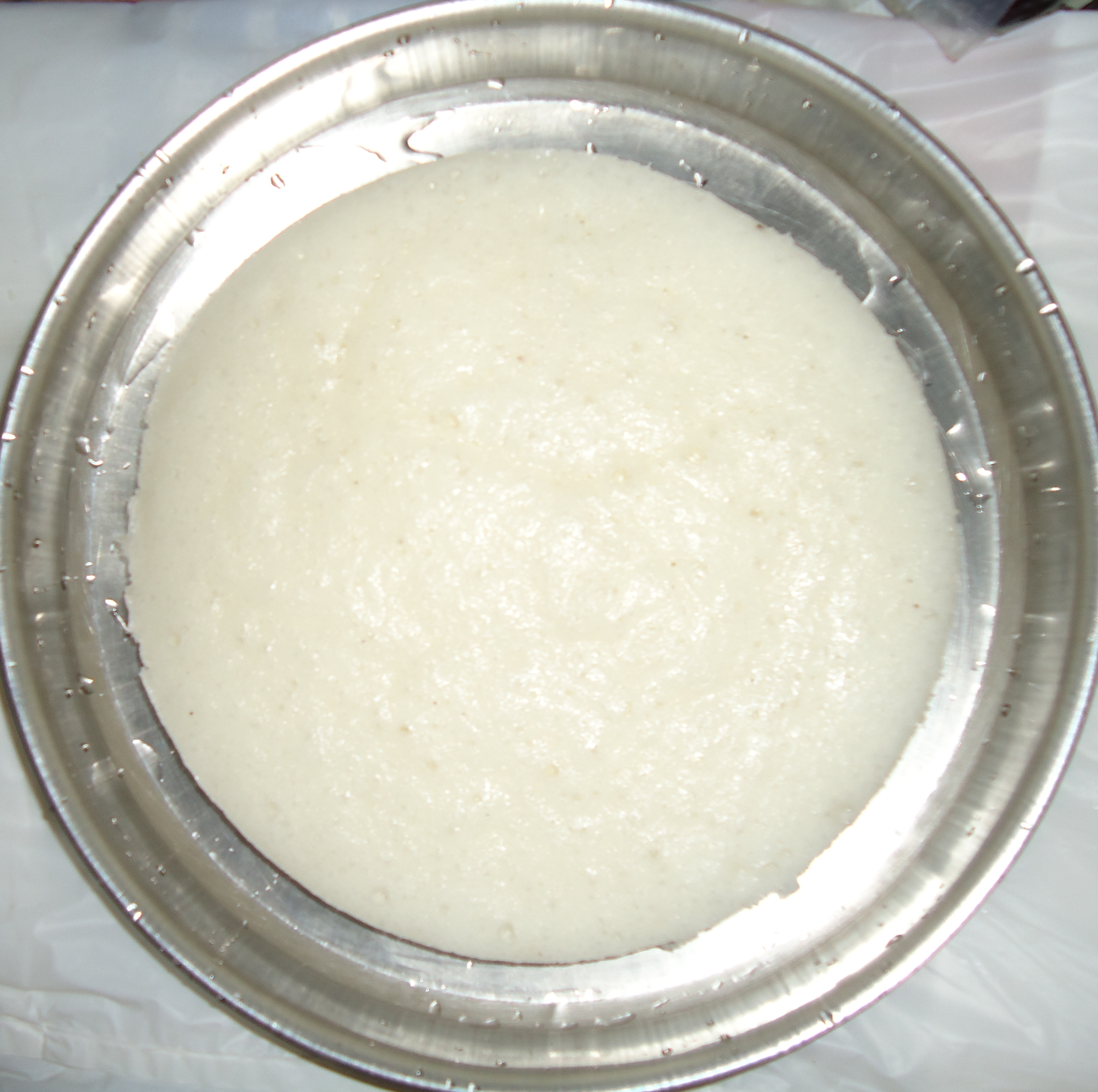 vattayappam